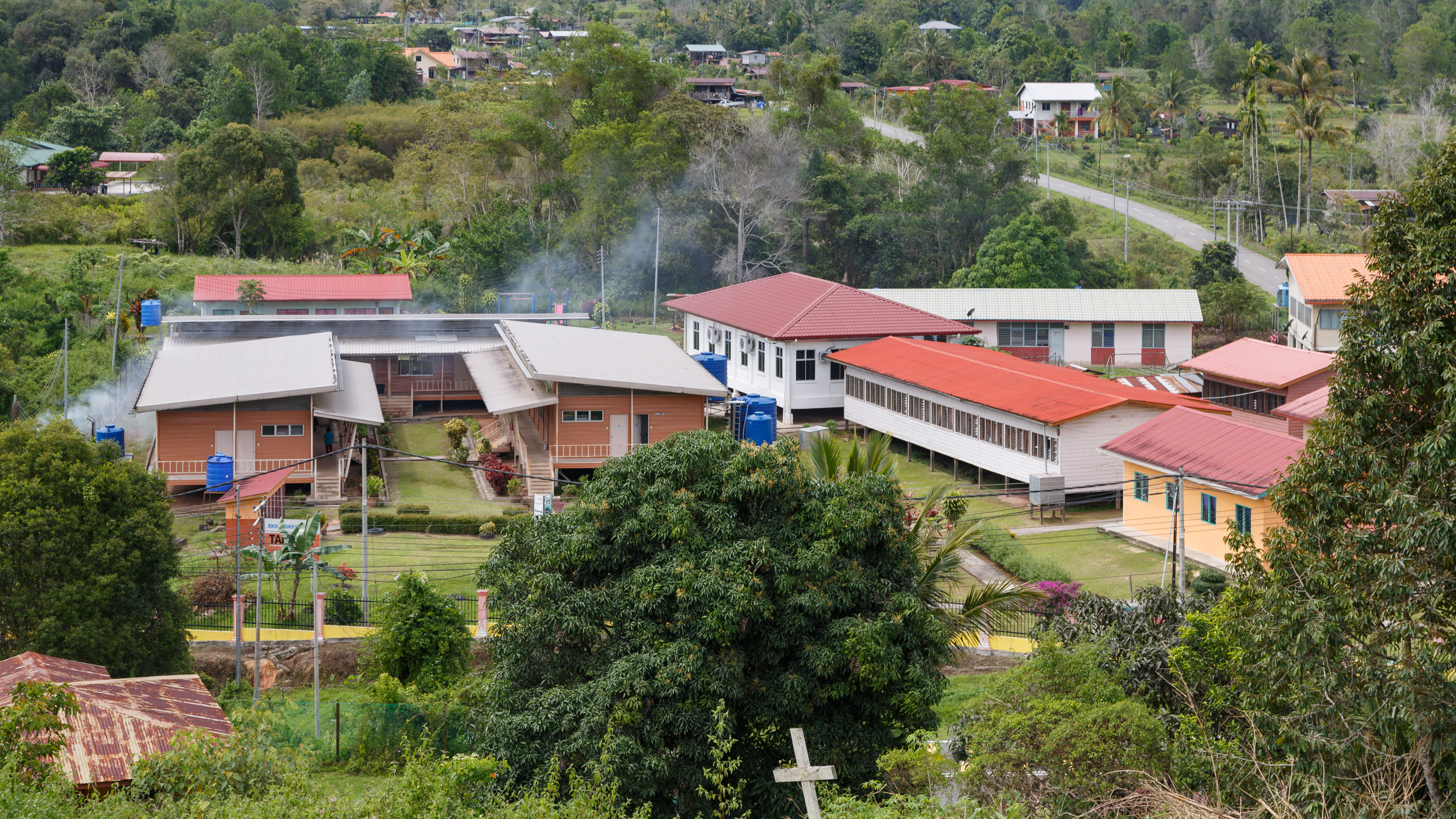 Patau, Sabah, Malaysia: SK Patau, the primary school of Patau, seen from church hill.